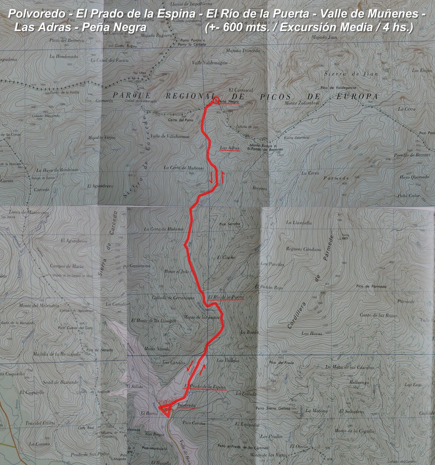 Trekking path from Polvoredo to Peña Negra